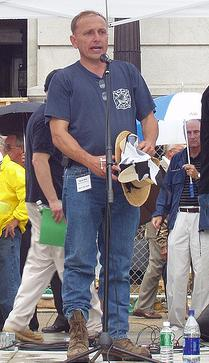 Gene Stilp at a payraise protest